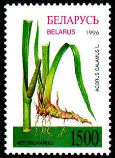 Stamp of Belarus